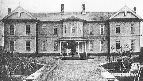 Nemuro Prefectural Office in the Meiji era